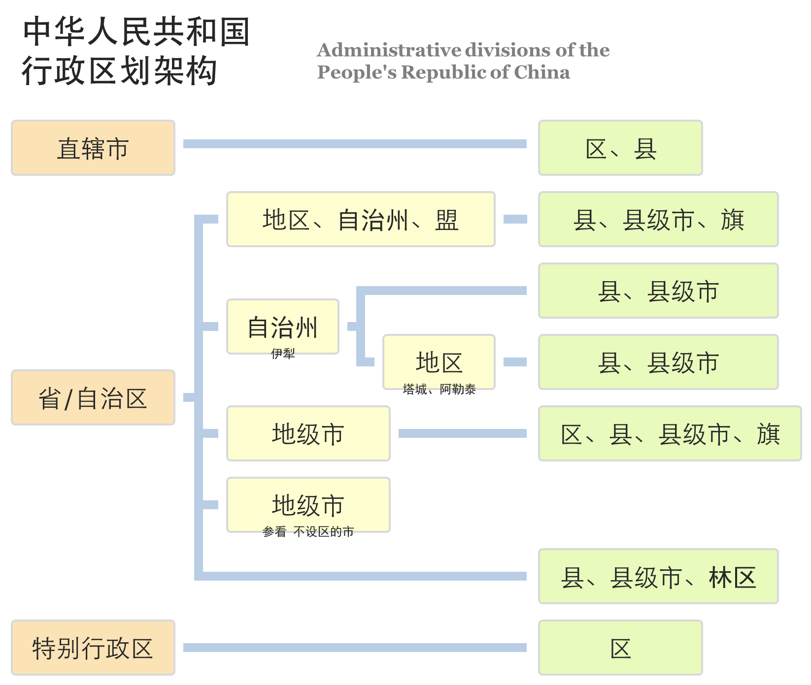 System of China administrative division(中国行政区架构)